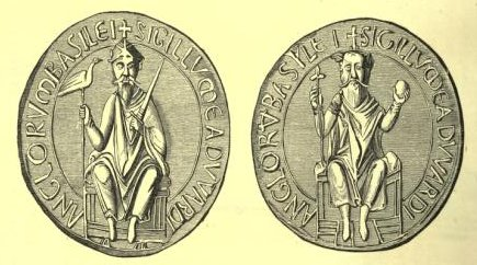 Medieval forged seal of Edward the Confessor, perhaps copied from a genuine seal.